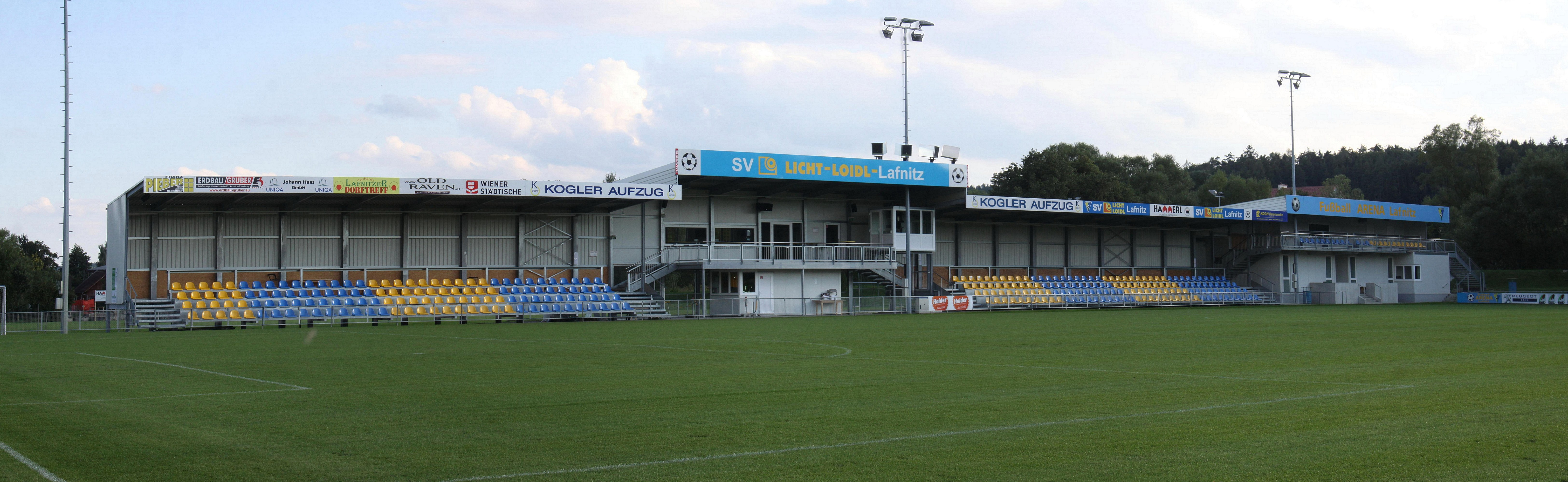 Lafnitz - Football-arena of SV Lafnitz